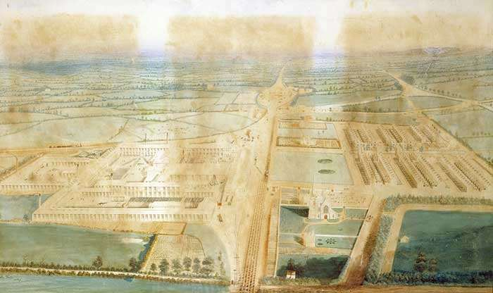 Watercolour of New Swindon by Edward Snell. Snell was head draughtsman at the GWR Swindon Works, later in 1846 assistant to Works Manager, Archibald Sturrock. This is a view to the east of New Swindon and shows the Railway Village's rows of cottages. The Works buildings are seen opposite the Village and at the top of the image the Station.